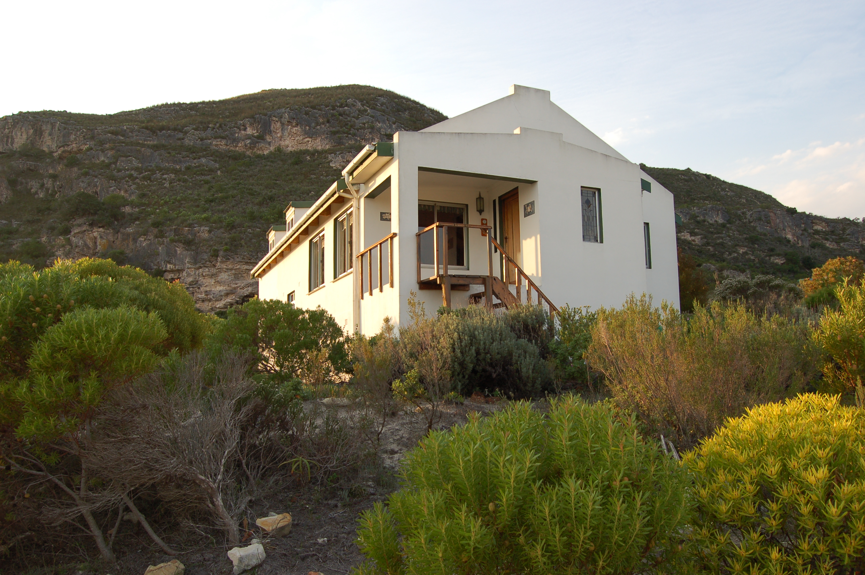 Farmhouse, Western Cape